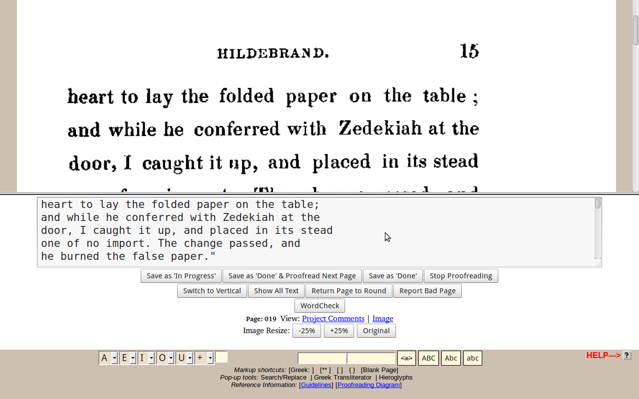 Screenshot of the Distributed Proofreaders website. The visible book except is from Hildebrand; or, The Days of Queen Elizabeth, An Historic Romance Vol 3 of 3 by anonymous, published 1844. The software is free software released under the GNU GPL. [1]